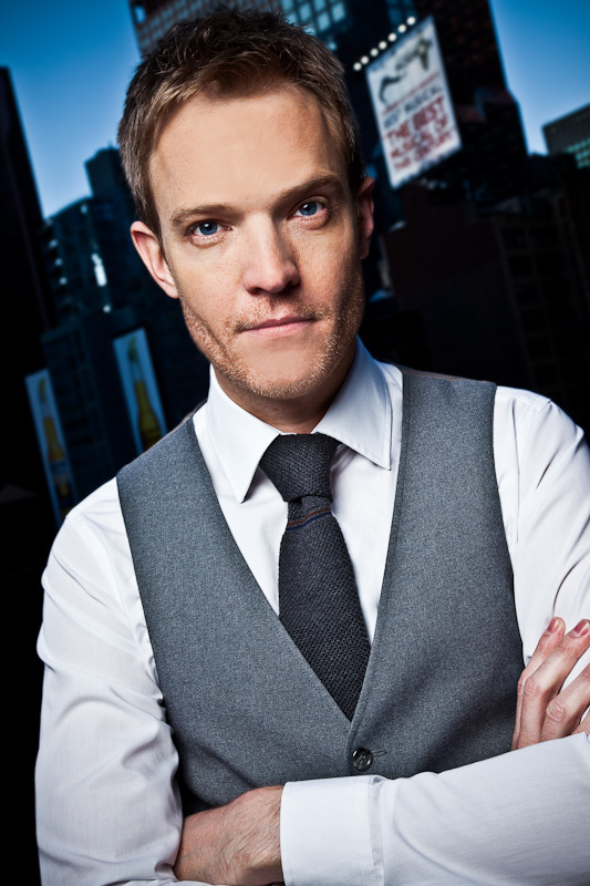 New 2011/2012 headshot for German television host, radio DJ, journalist and media trainer Ernst Marcus Thomas